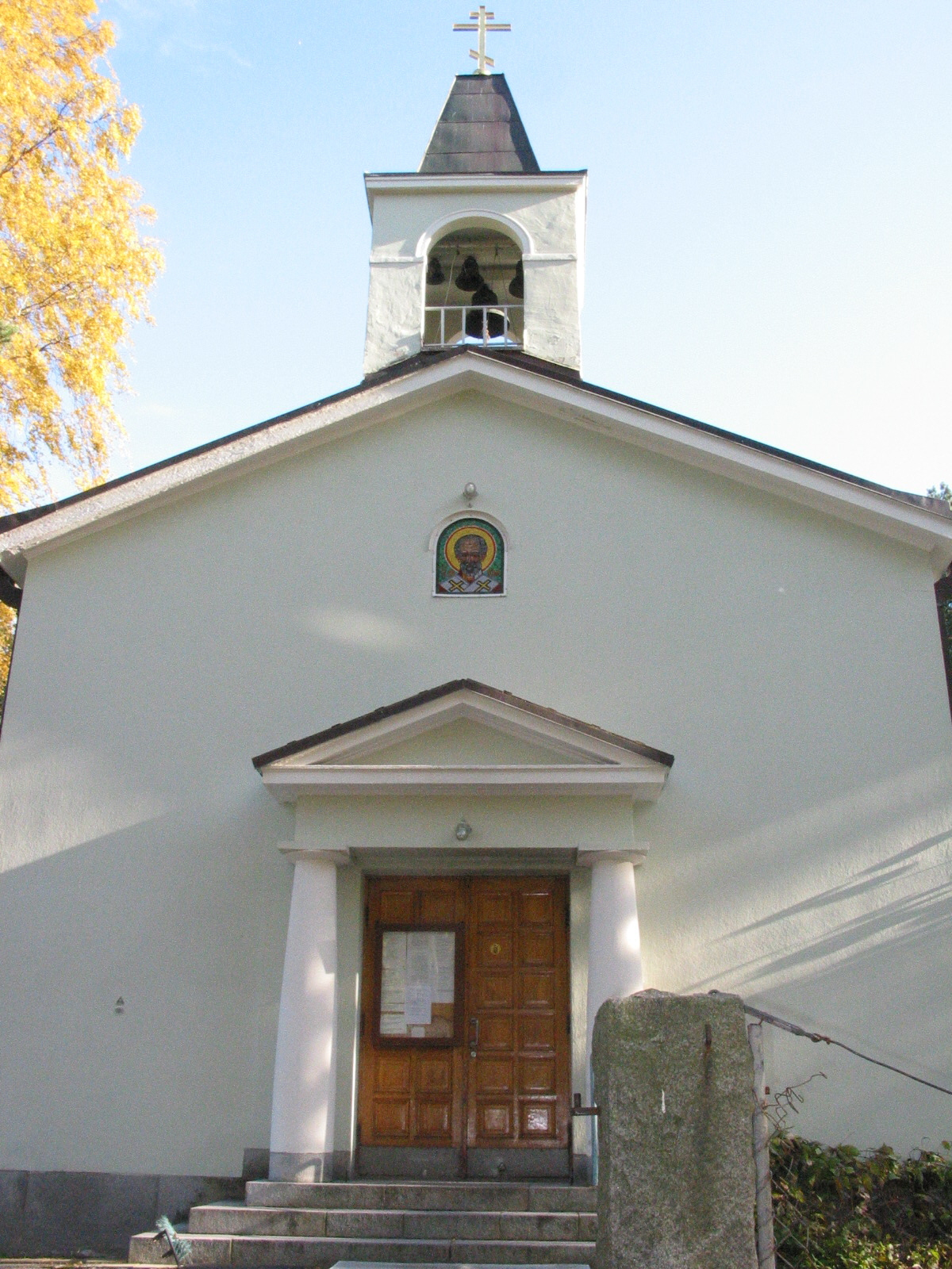 Church of St. Nicholas in Helsinki